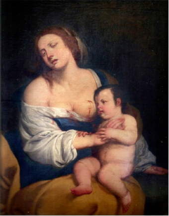 Mother and Child, Oil on canvas, 106.6 by 91.4 cm.- (42 by 36 ins)